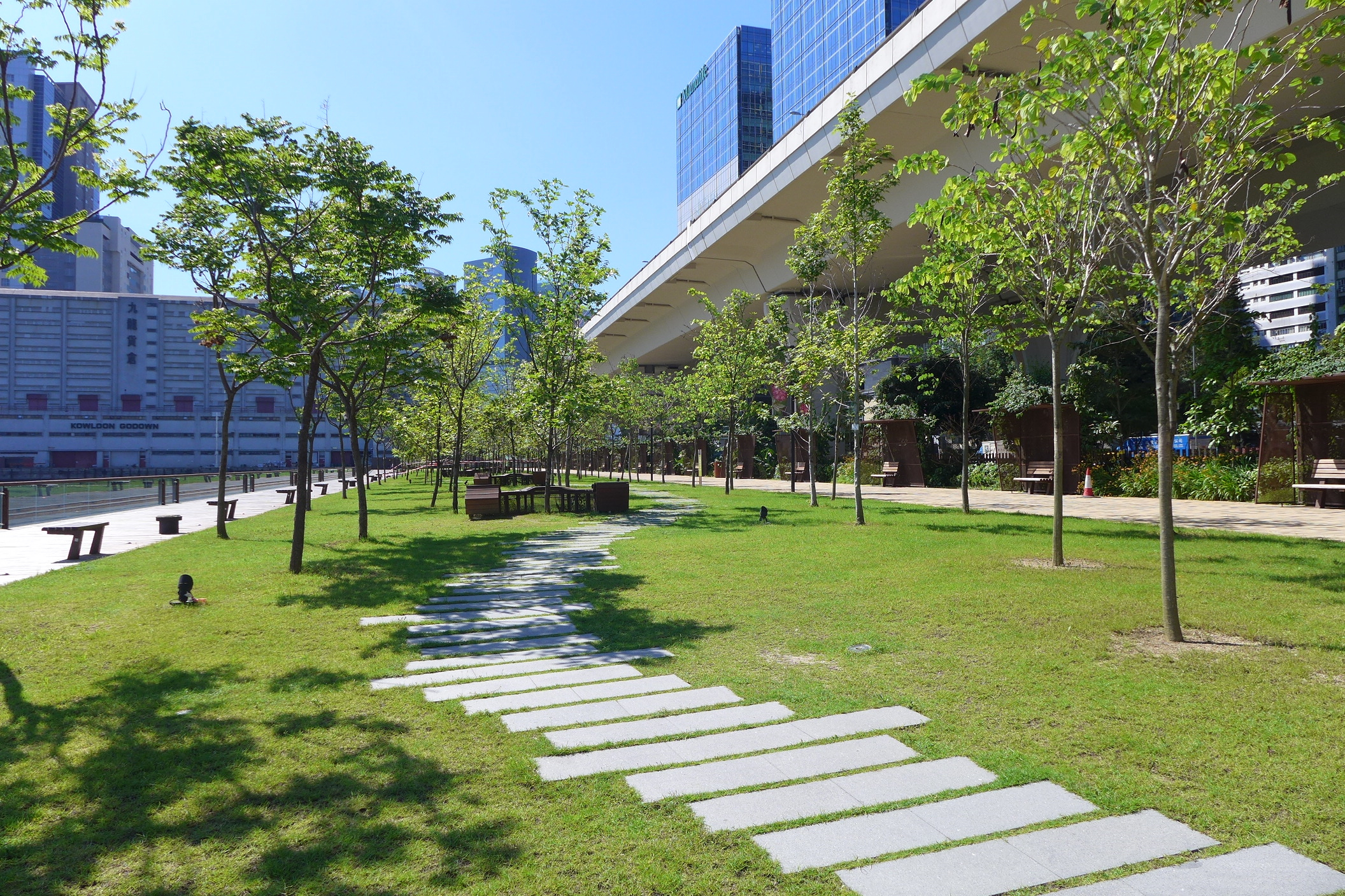 Kwun Tong Promenade Waterfront Tree Walk